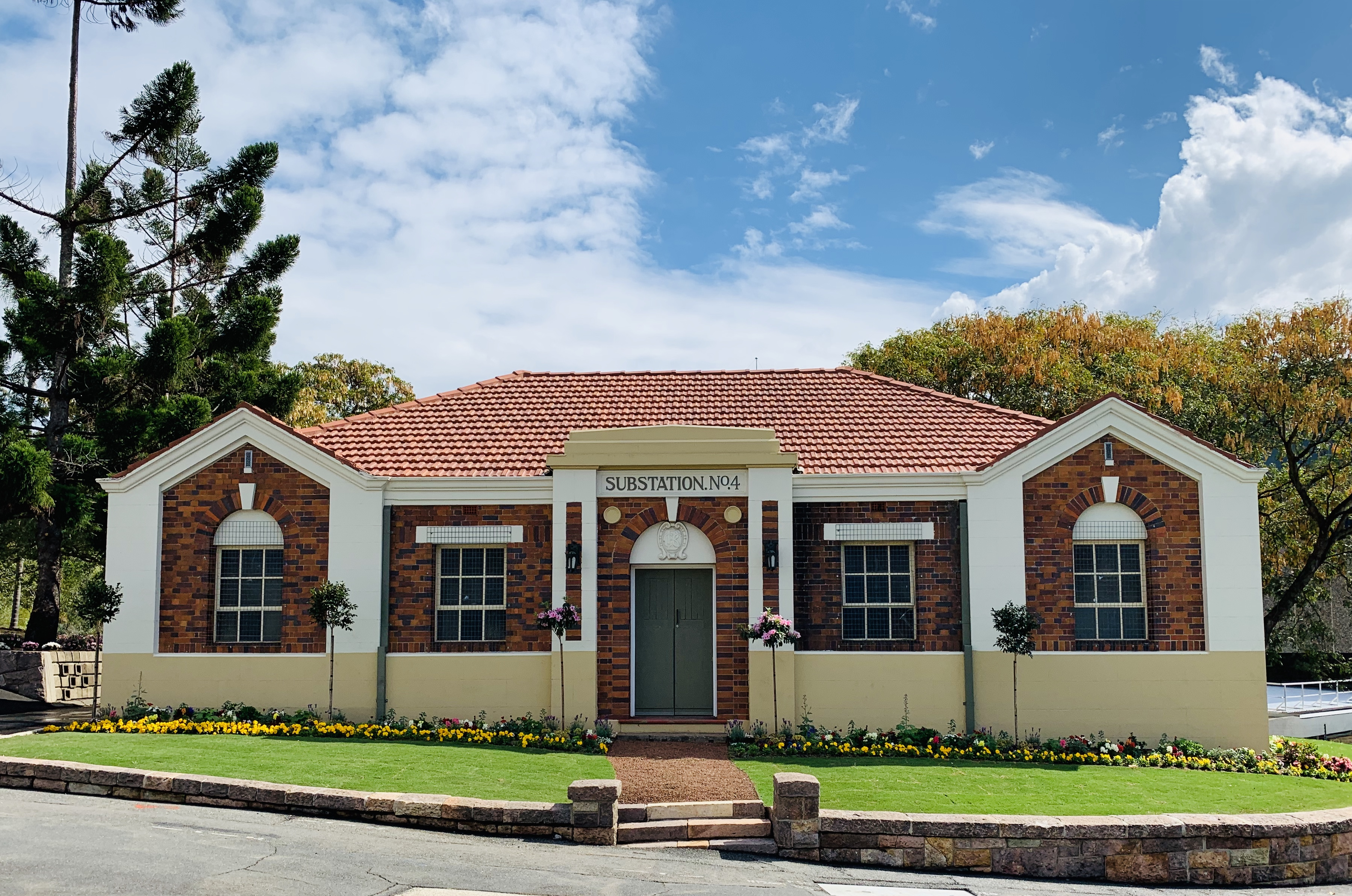 Substation No. 4, Spring Hill, Queensland